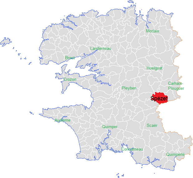 placement Spézet in departement Finistère